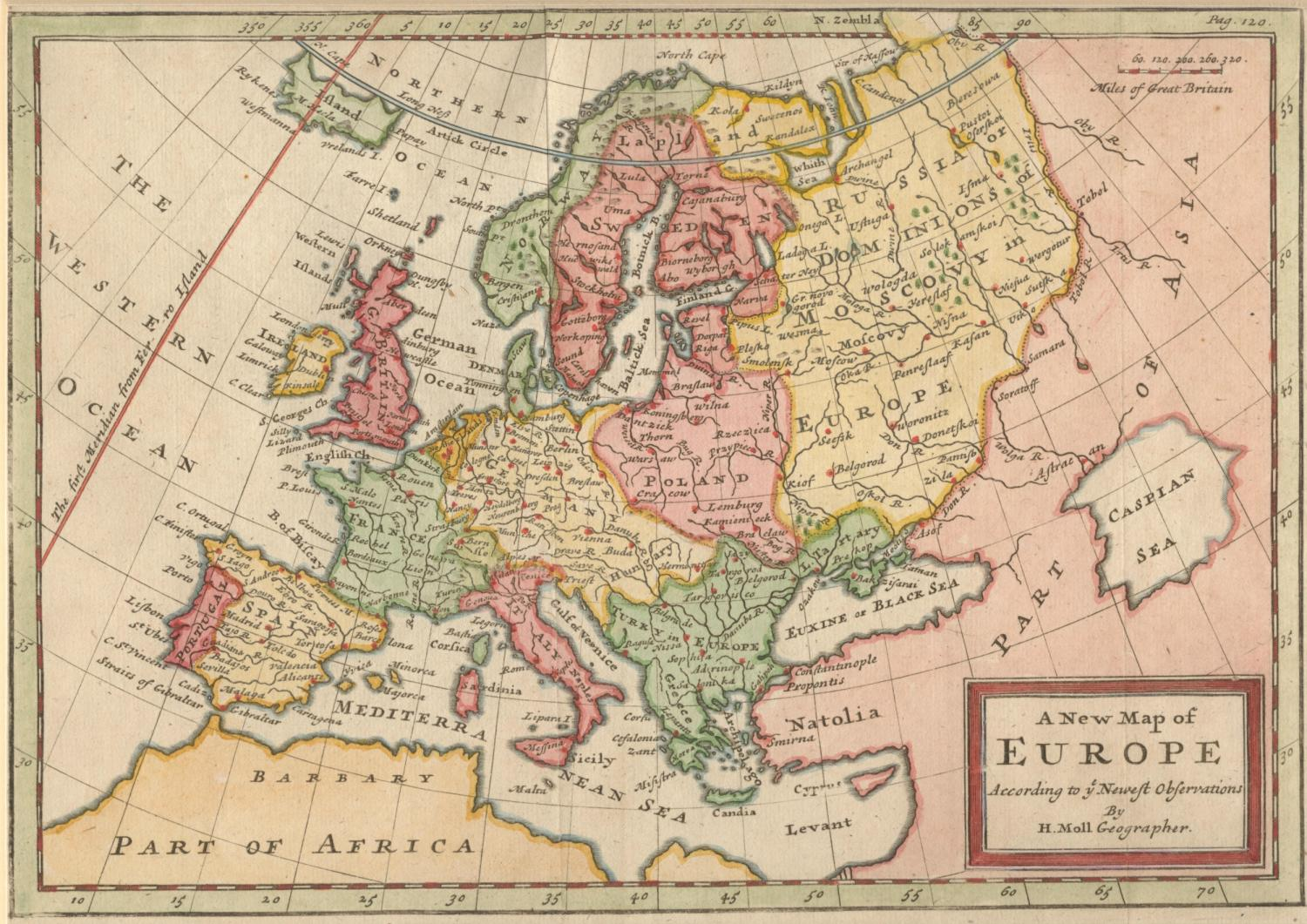 author: Herman Moll source url: fair use rationale: by permission of website owner (Old Book Art); plus it is a public domain map